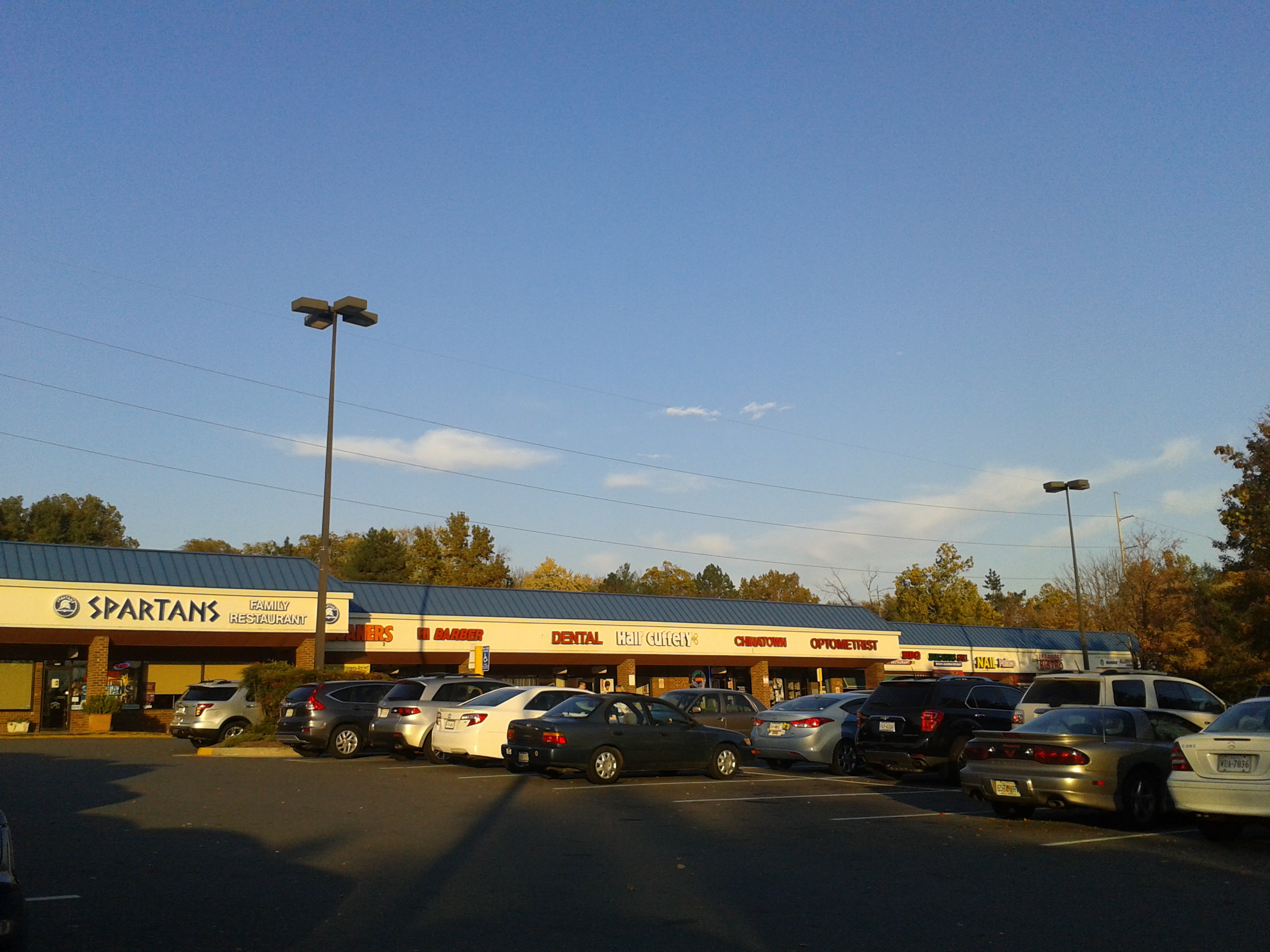 Wakefield, in Fairfax County Taken by me in October, 2016